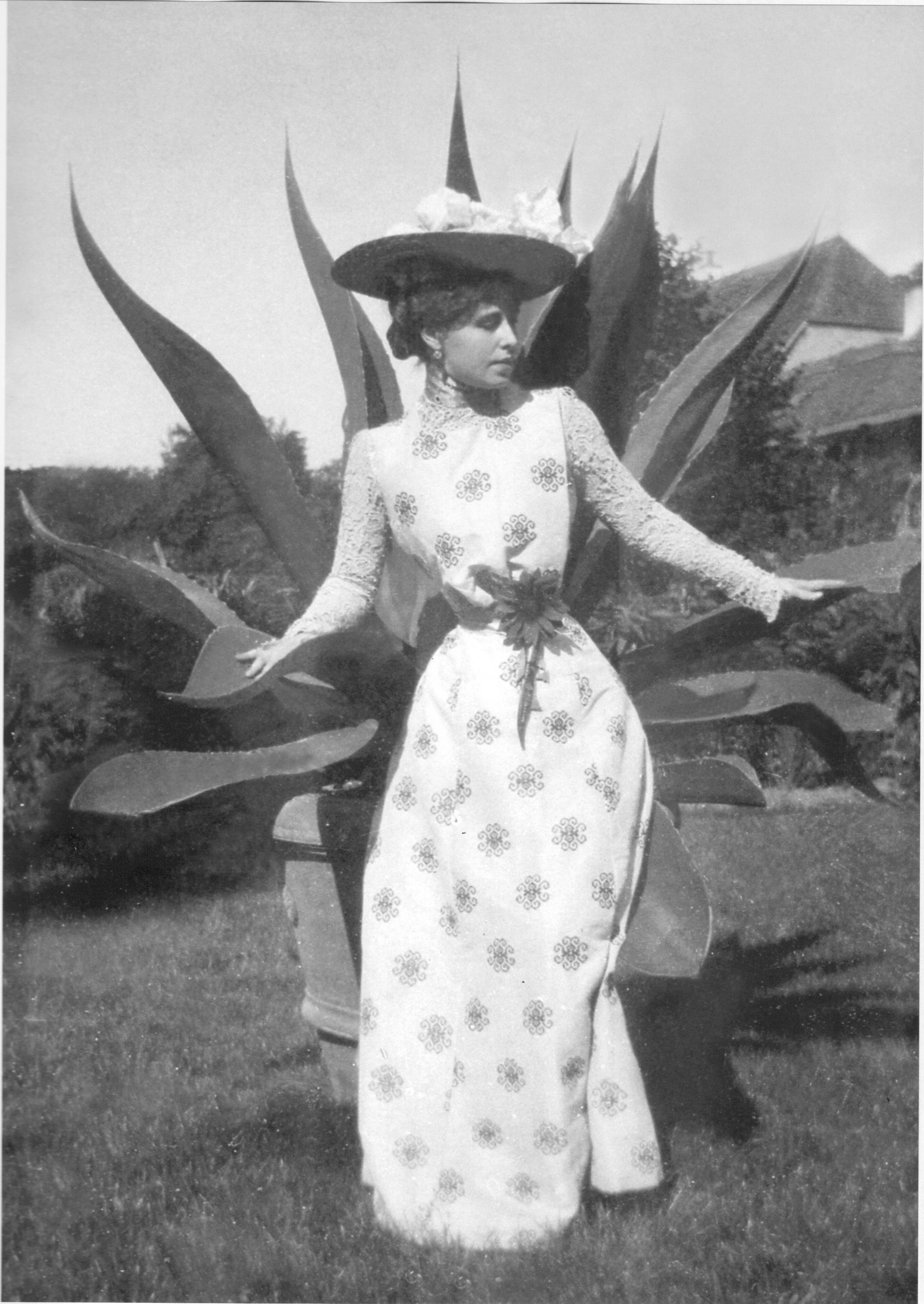 Queen Mary of Romania. Photo taken by her husband, King Ferdinand, before the World War I